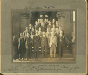 Original Class of the Ubquiteers